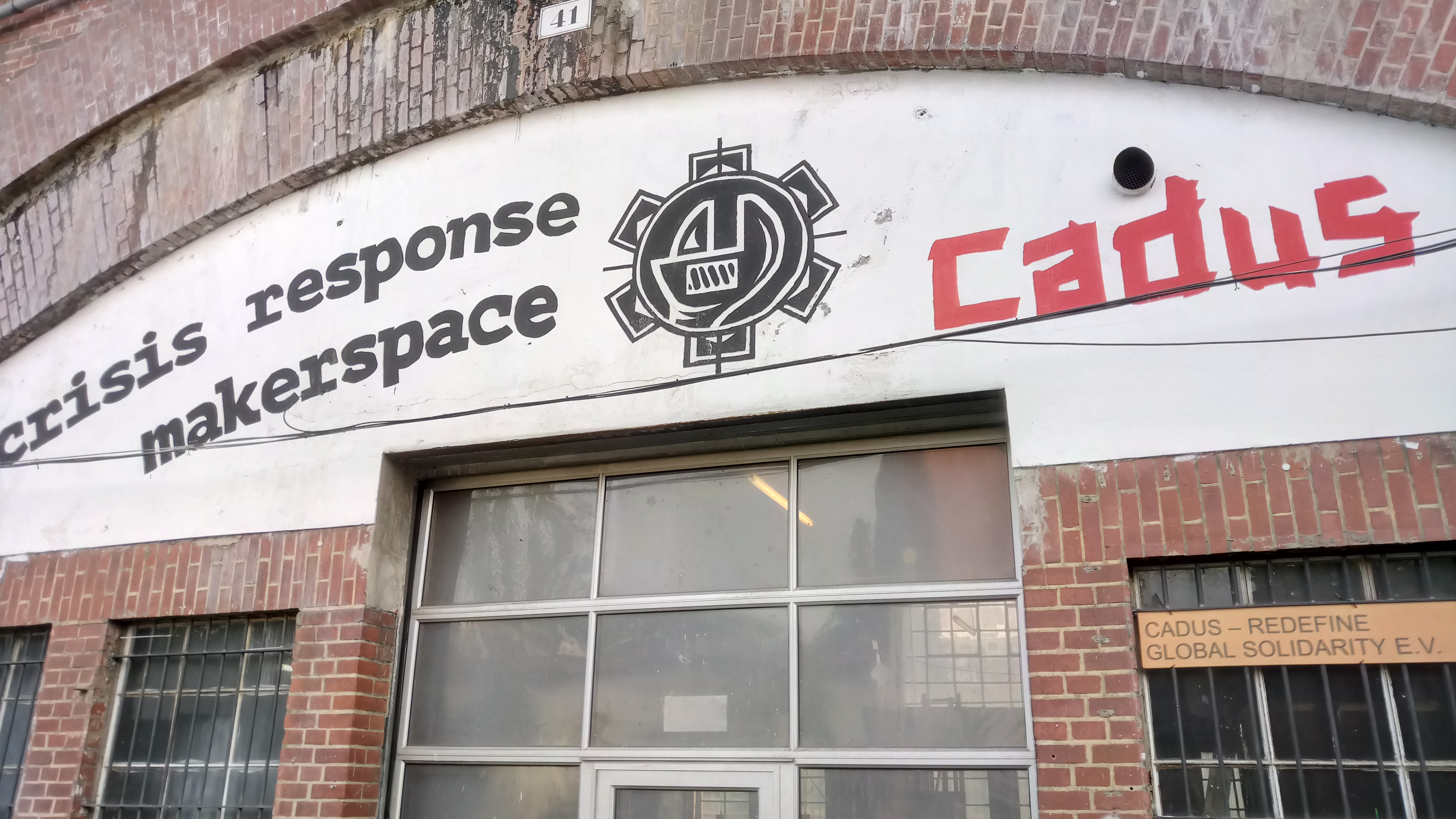 Illustrative photo of Cadus Maker Space's main entrance including the NGO's photo (Berlin)